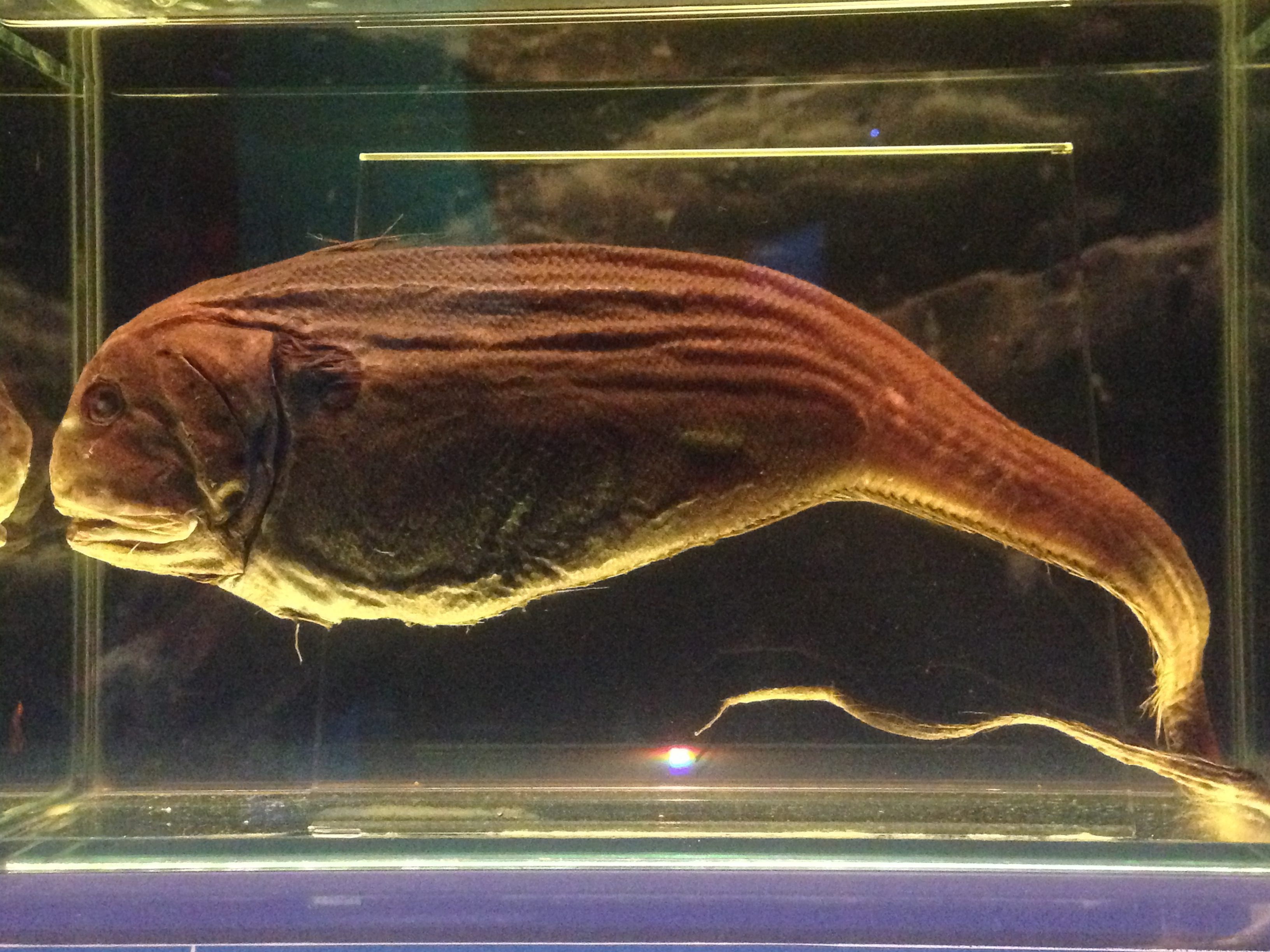 A Roundhead Grenadier (Odontomacrurus murrayi), a deep sea rattail fish also known as a Largefang Whiptail. Preserved specimen at Melbourne Museum, Australia.